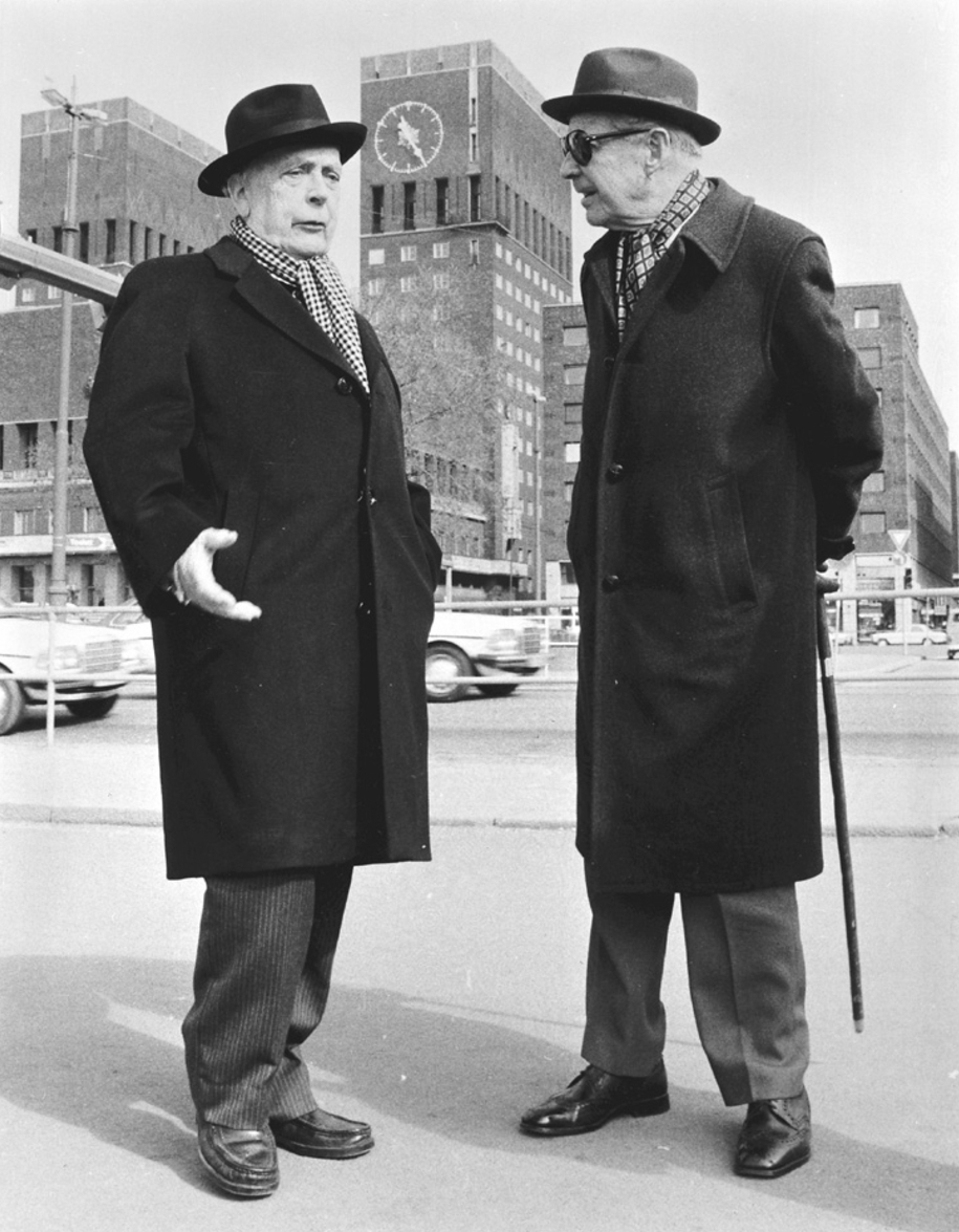 Rolf Stranger (1891-1990) and Brynjulf Bull (1906–1993), former mayors of Oslo.